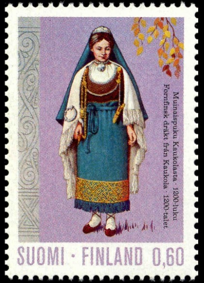 Postage stamp depicting a traditional dress of the 1200s from Kaukola